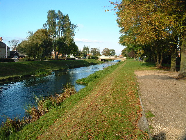 The River Welland. The River Welland at Spalding looking towards the twin bridges from the town side